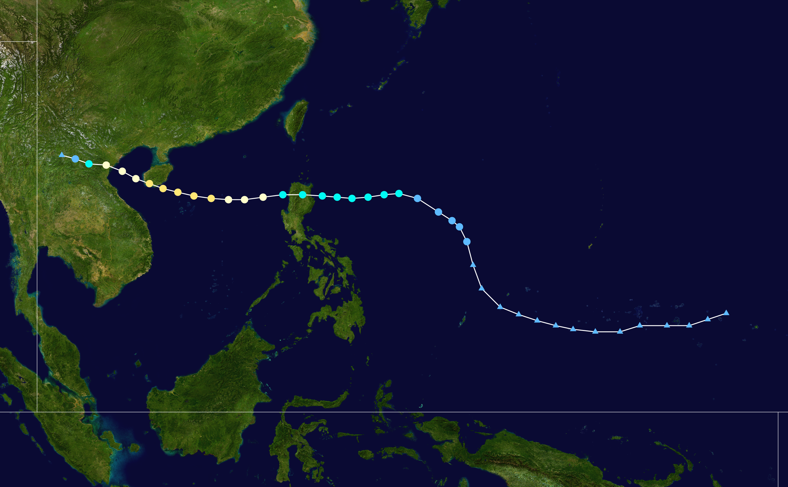 Typhoon Niki 1996 track. Uses the color scheme from the Saffir-Simpson Hurricane Scale.